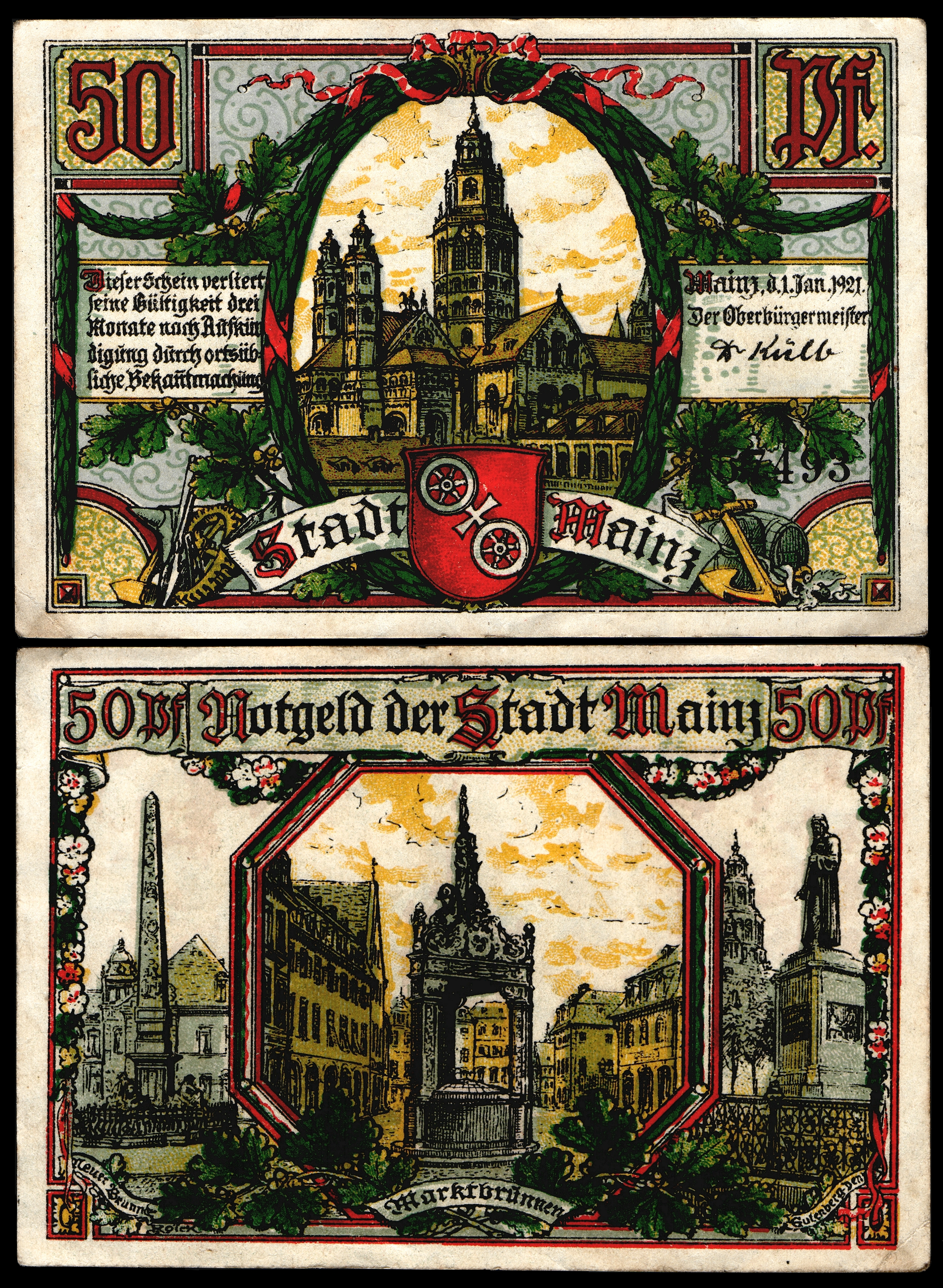 50 Pfennig Notgeld (emergency money) banknote, Stadt Mainz, 1921, AV: Mainz Cathedral, RV: Marktbrunnen, size: 103 mm x 70 mm.